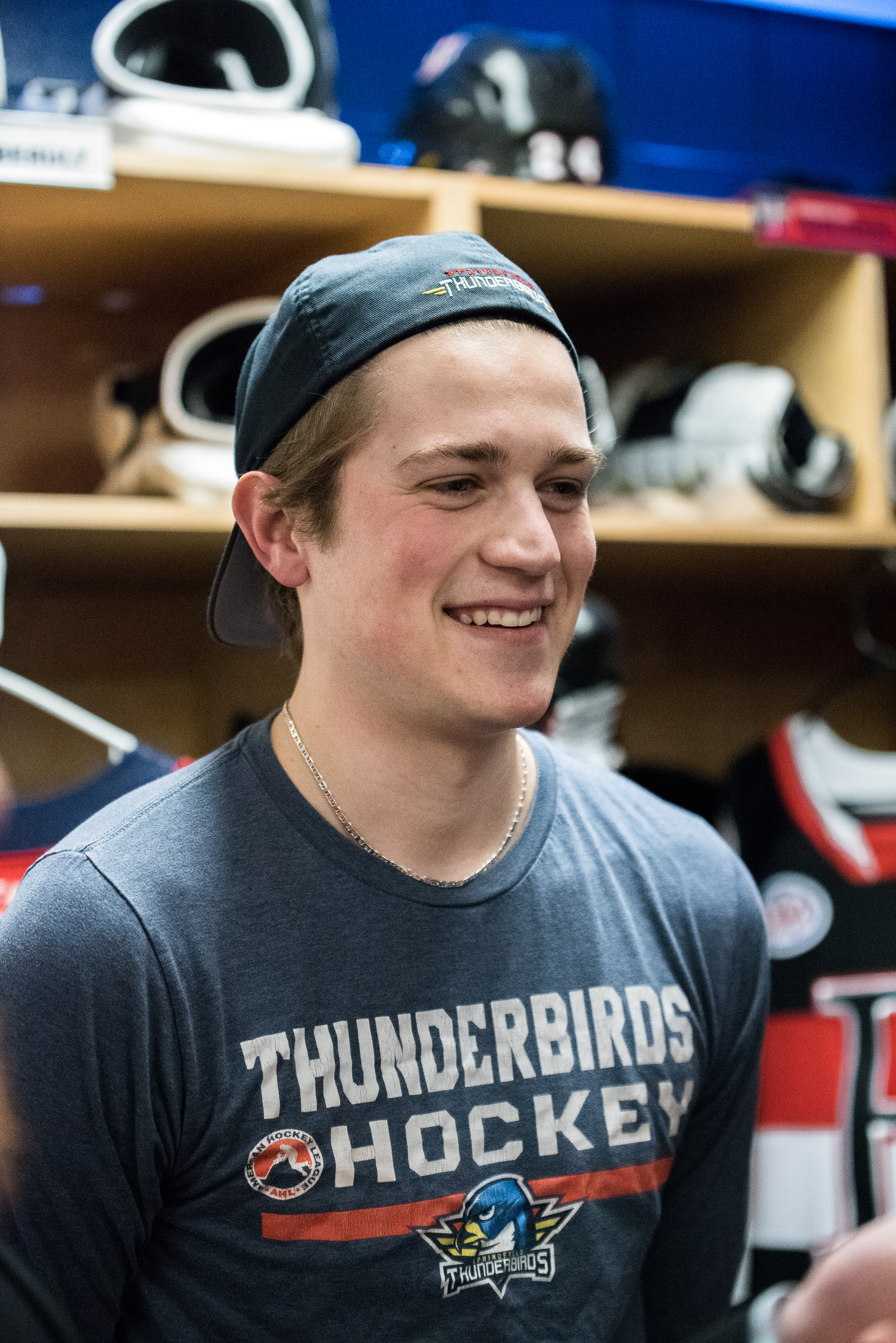 Photo by: China Wong